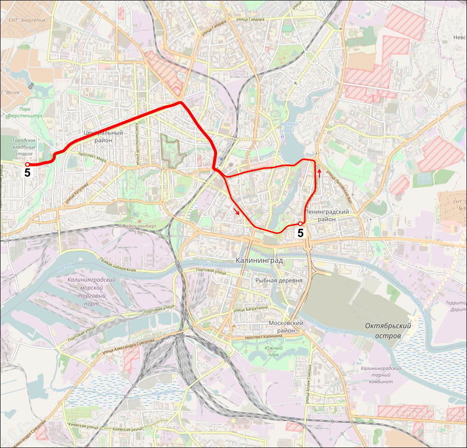 Tram map of Kaliningrad. This map may be incomplete, and may contain errors. Don't rely solely on it for navigation.